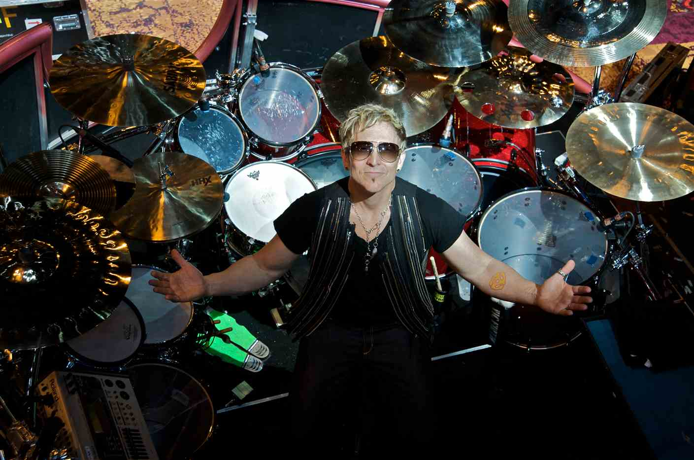 Mark Schulman